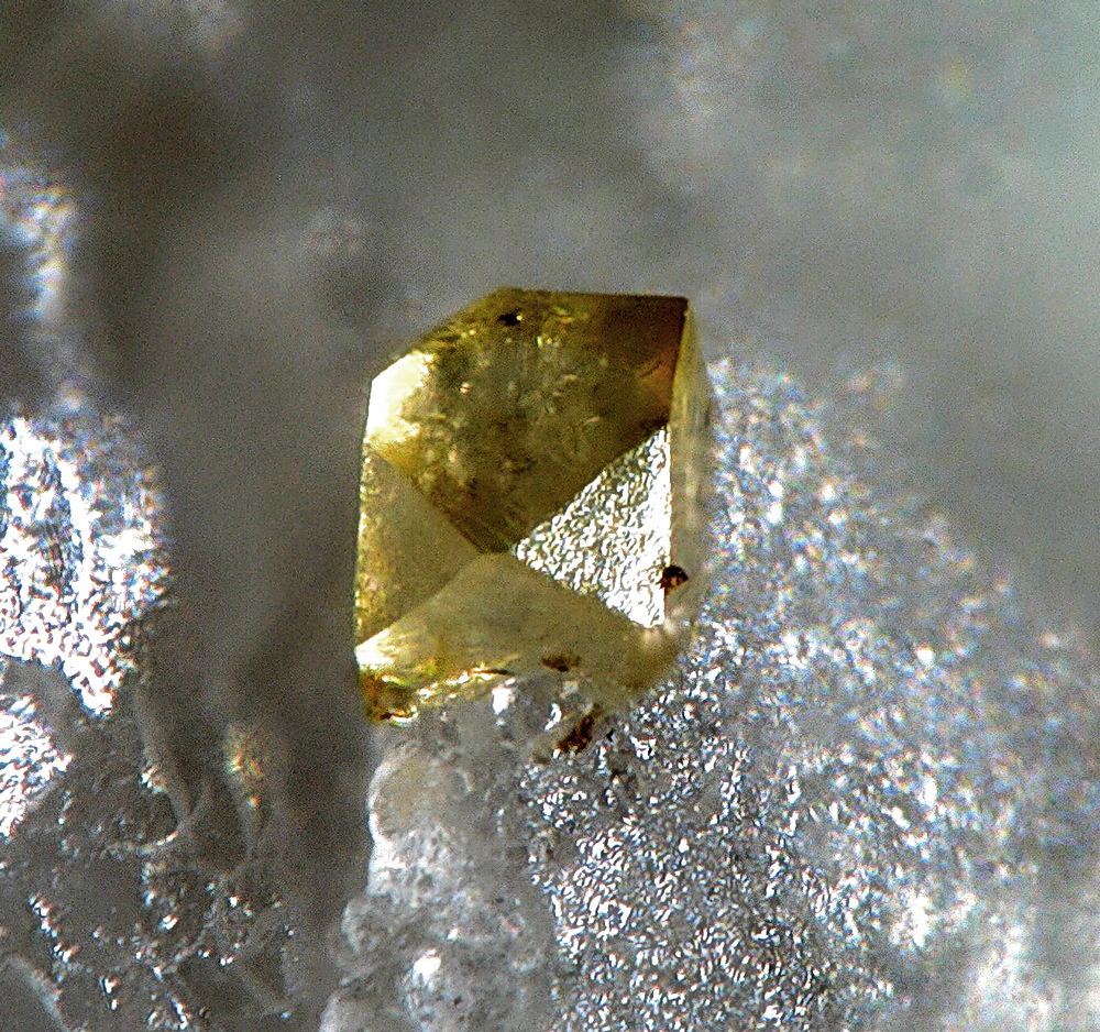 Goyazite Locality: Ilfeld, Nordhausen, Harz Mts, Thuringia, Germany (Locality at ) Picture width 0.4 mm. Collection and photograph Christian Rewitzer